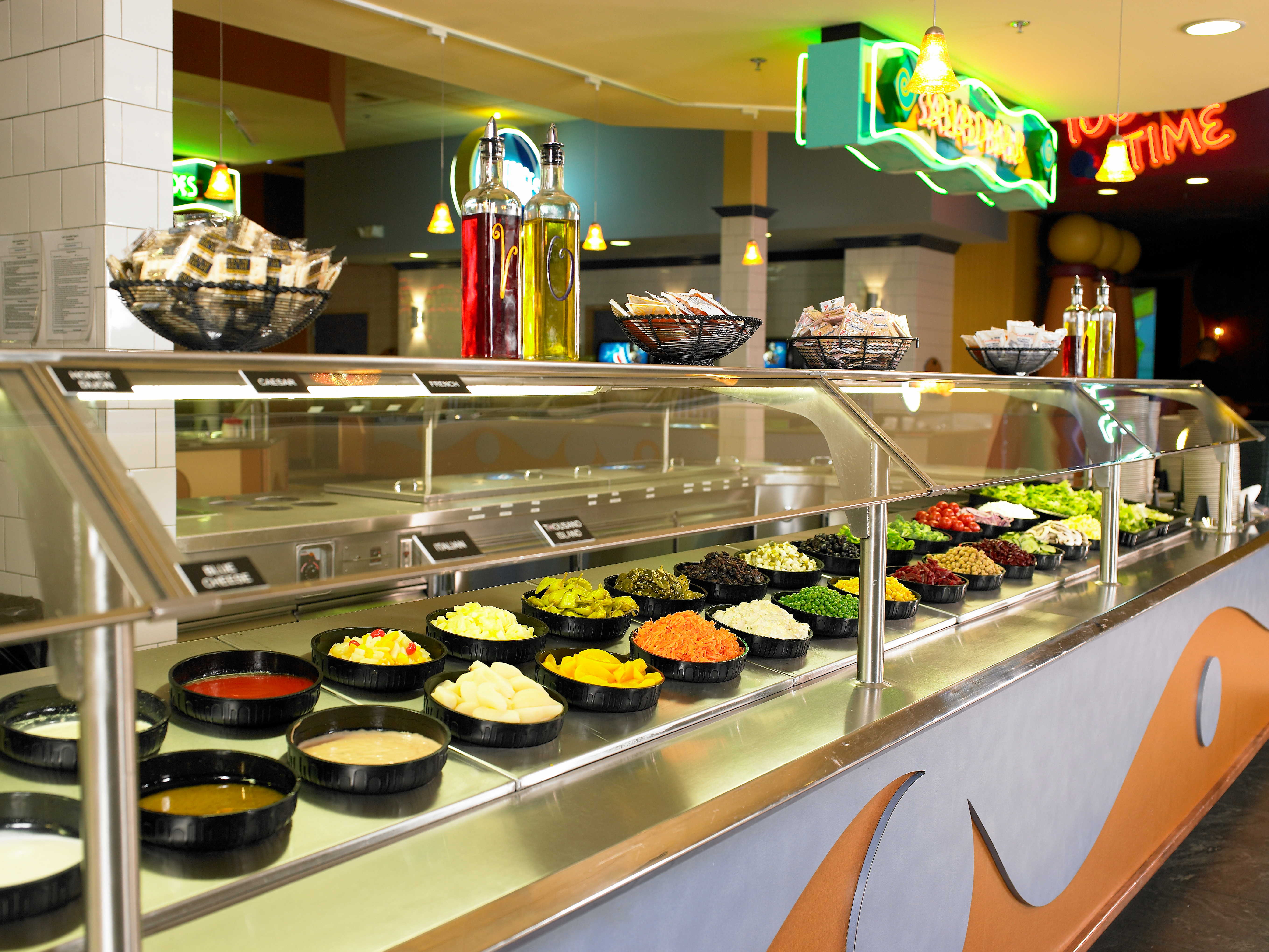 Johns Inc Salad_Bar_Buffet